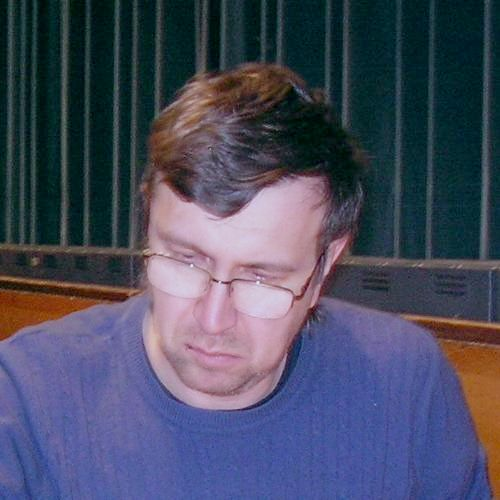 Vladimir Burmakin at the tournament in Bad Wörishofen 2010, photographer Gerhard Hund